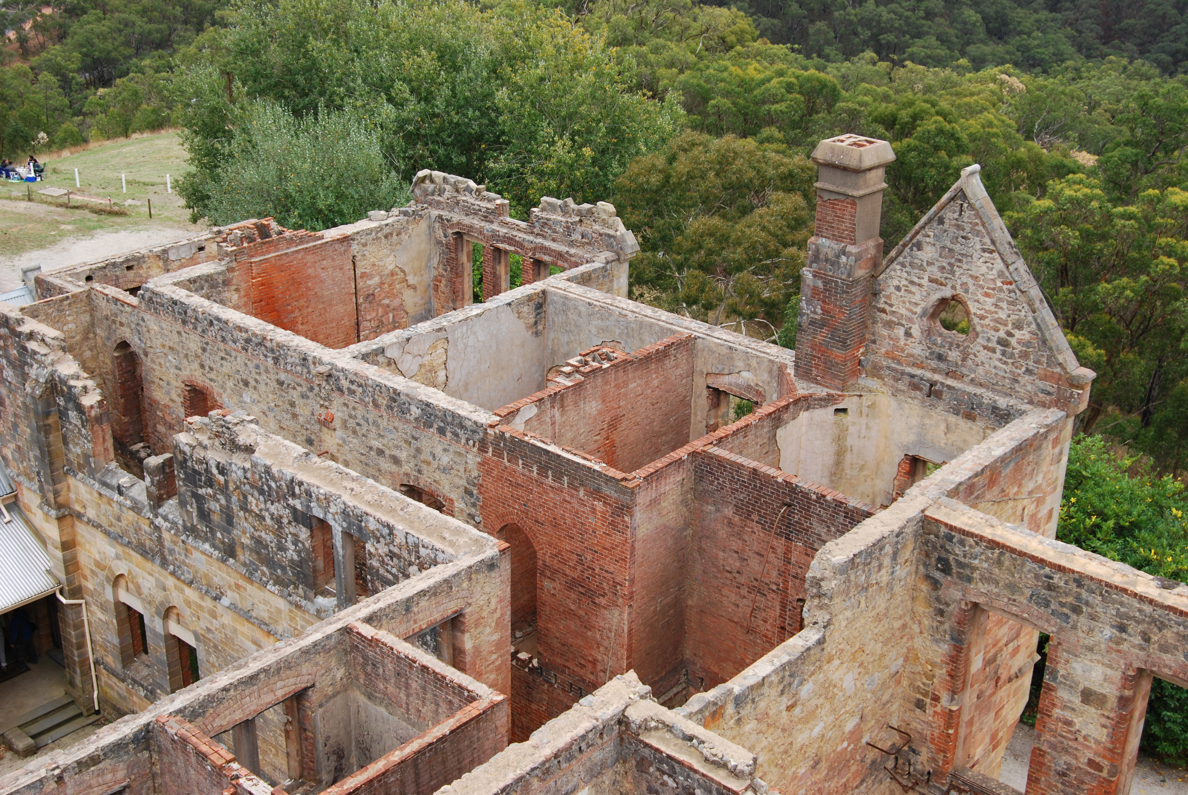 Marble Hill Ruins - former South Australian Governer's summer residence.